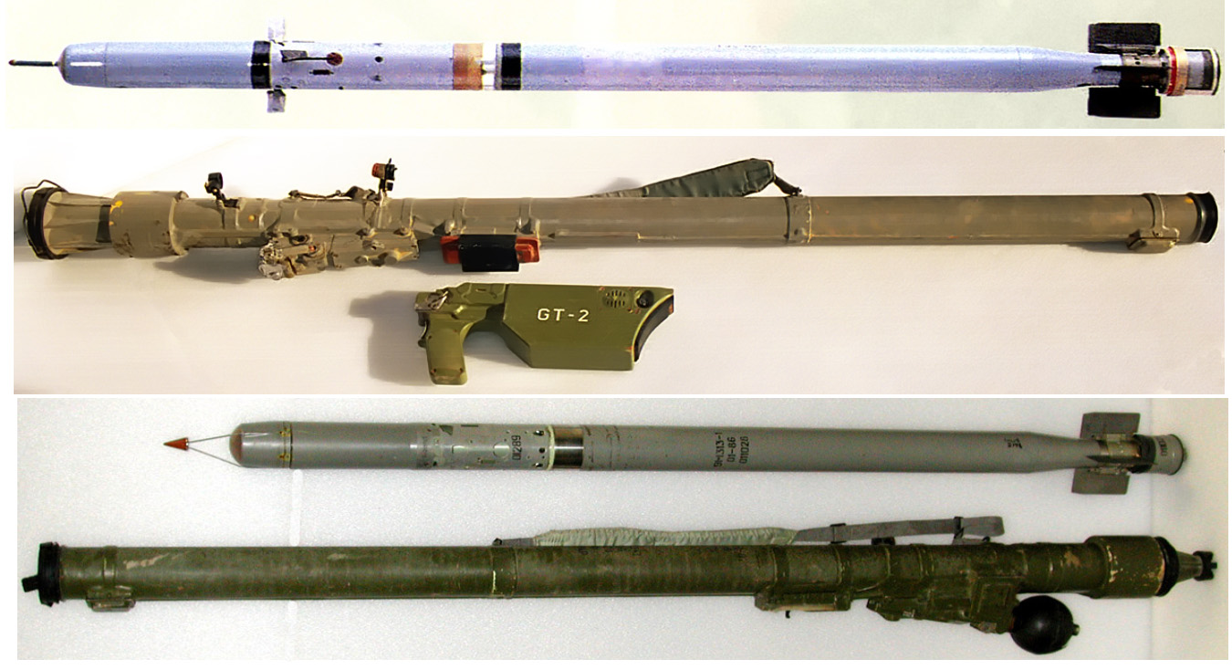 An image of a Russian SA-16 and SA-18 Grouse missiles. From a PDF document on a US government website: , thus PD